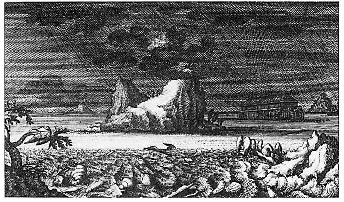 Illustration Johann Jakob Scheuchzer's Herbarium of the Deluge (1709) explaining fossils in mountain rocks by floods from Noahs time.